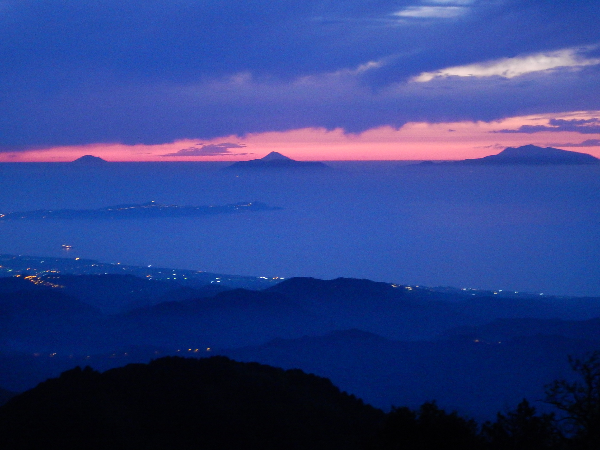 sunset at the Aeolian Island seen from Peloritani mountains,Sicily